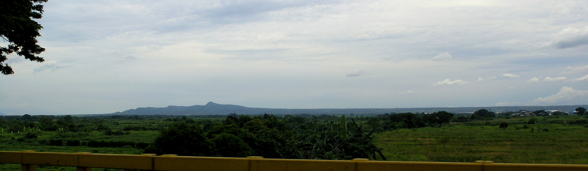 Mount Sungay, the highest point of the Province of Cavite as seen from the east near Calamba, Laguna.